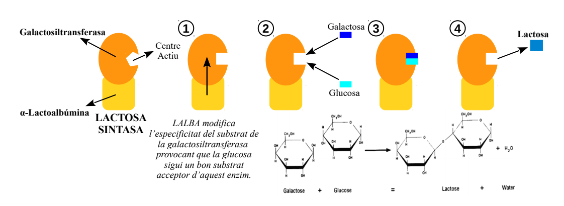 Modificació de l'especificitat de la galactosiltransferasa.